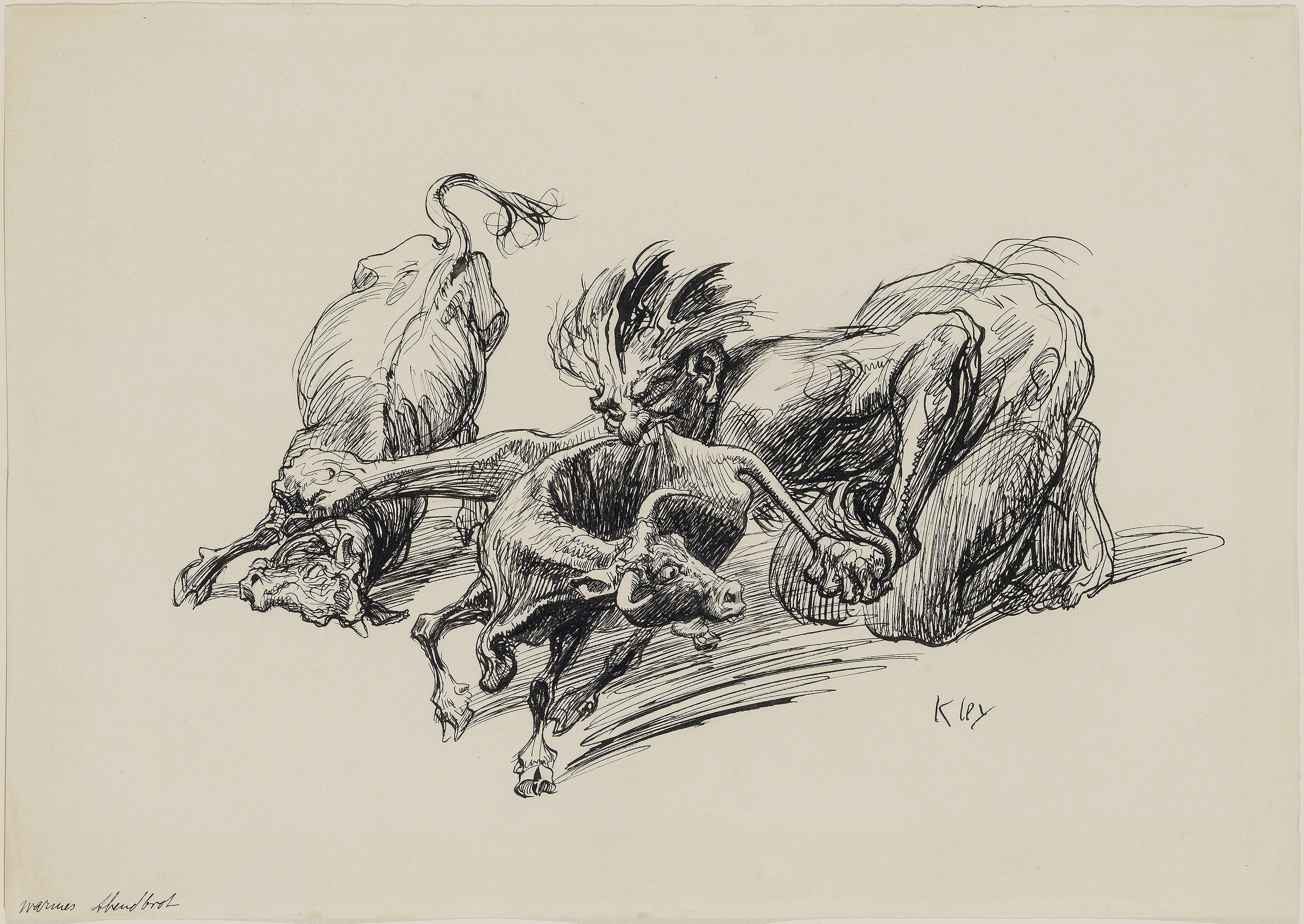 Kley Heinrich - A Hot Evening Meal